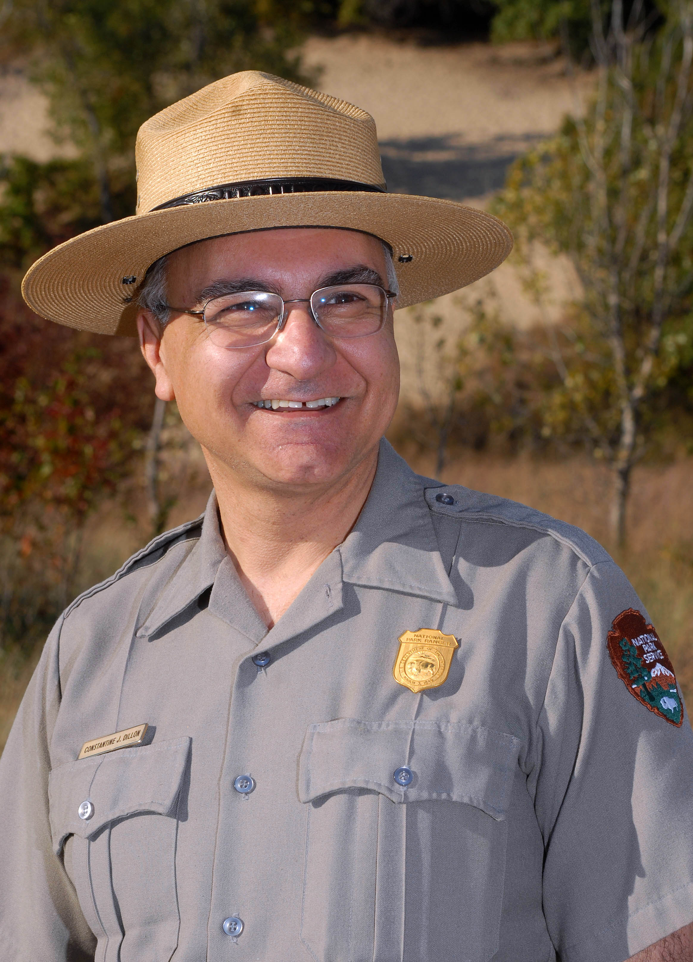 Photo of Costa Dillon on NPS uniform 2008